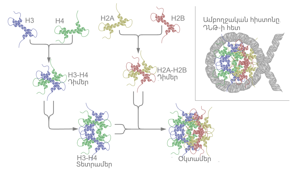 Schematic representation of the assembly of the core histones into the nucleosome in Armenian